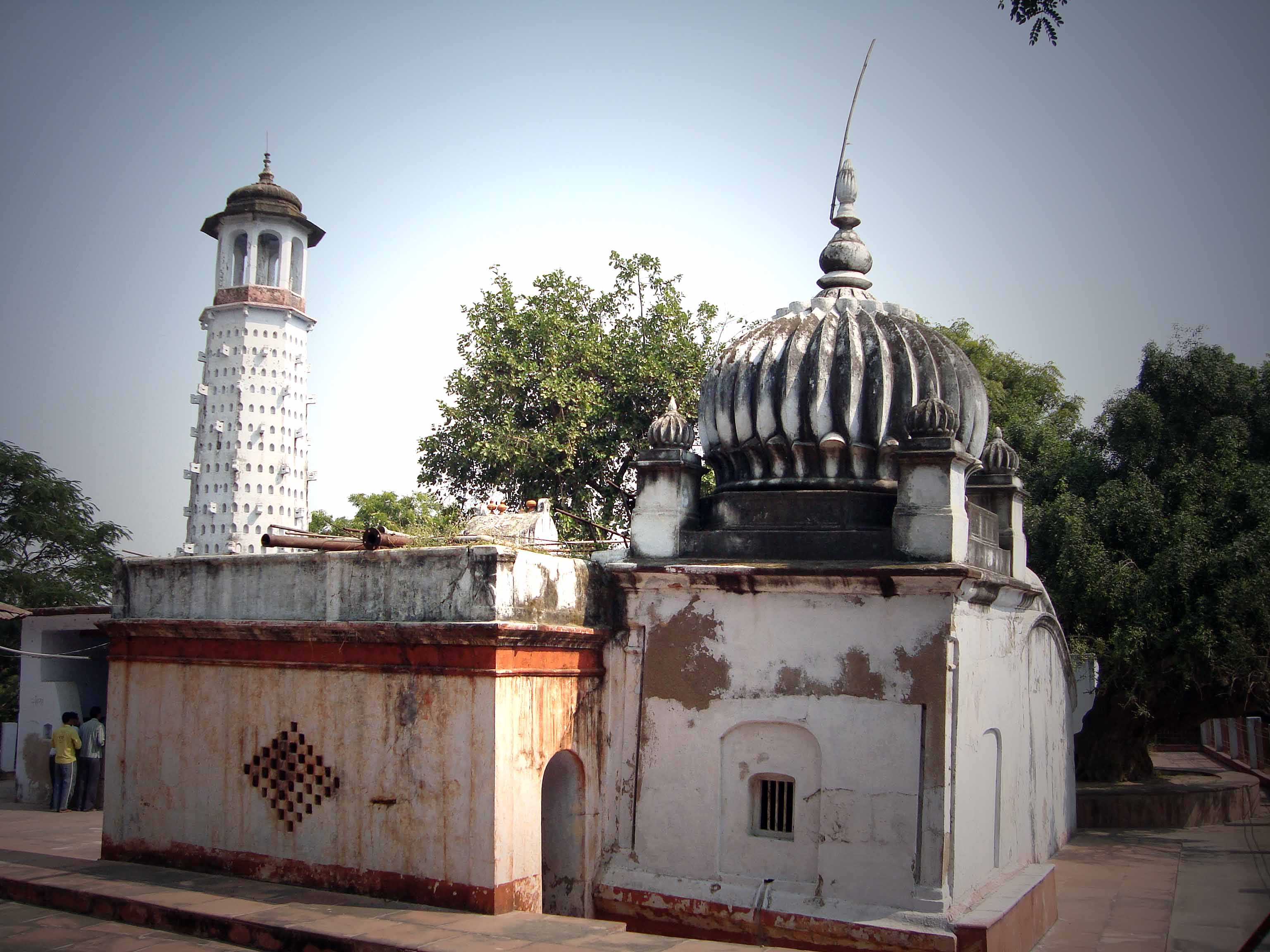 N-UP-L143 Mound Bithoor Kanpur